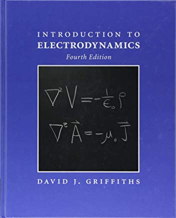 Pictured are Poisson's equations for electricity (top) and magnetism (bottom) in SI units written on a chalkboard.